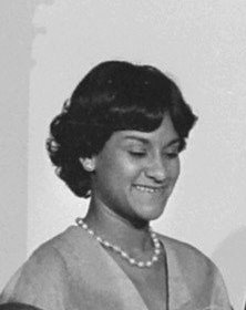 Joan Ferrier (Amsterdam, 14 Sept. 1977)